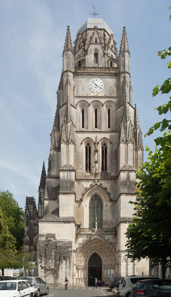 Cathédrale Saint-Pierre; Saintes, Poitou-Charentes, Charente Maritime, France; ; ref: PM_094168_F_Saintes; ; Photographer: Paul M.R. Maeyaert; © Paul M.R. Maeyaert; ; Cultural heritage; Cultural heritage/Cathedral; Europeana; Europe/France/Saintes